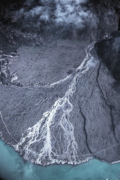 This arcuate delta has formed on the south-west coastline of Greenland, near Narsarsuaq.